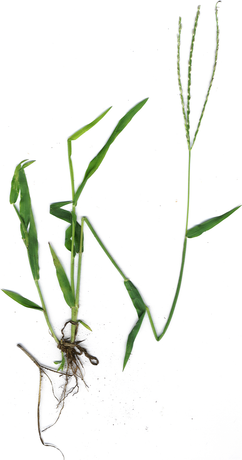 Digitaria ciliaris (Hi brac exclosure). Location: Maui, Waikapu